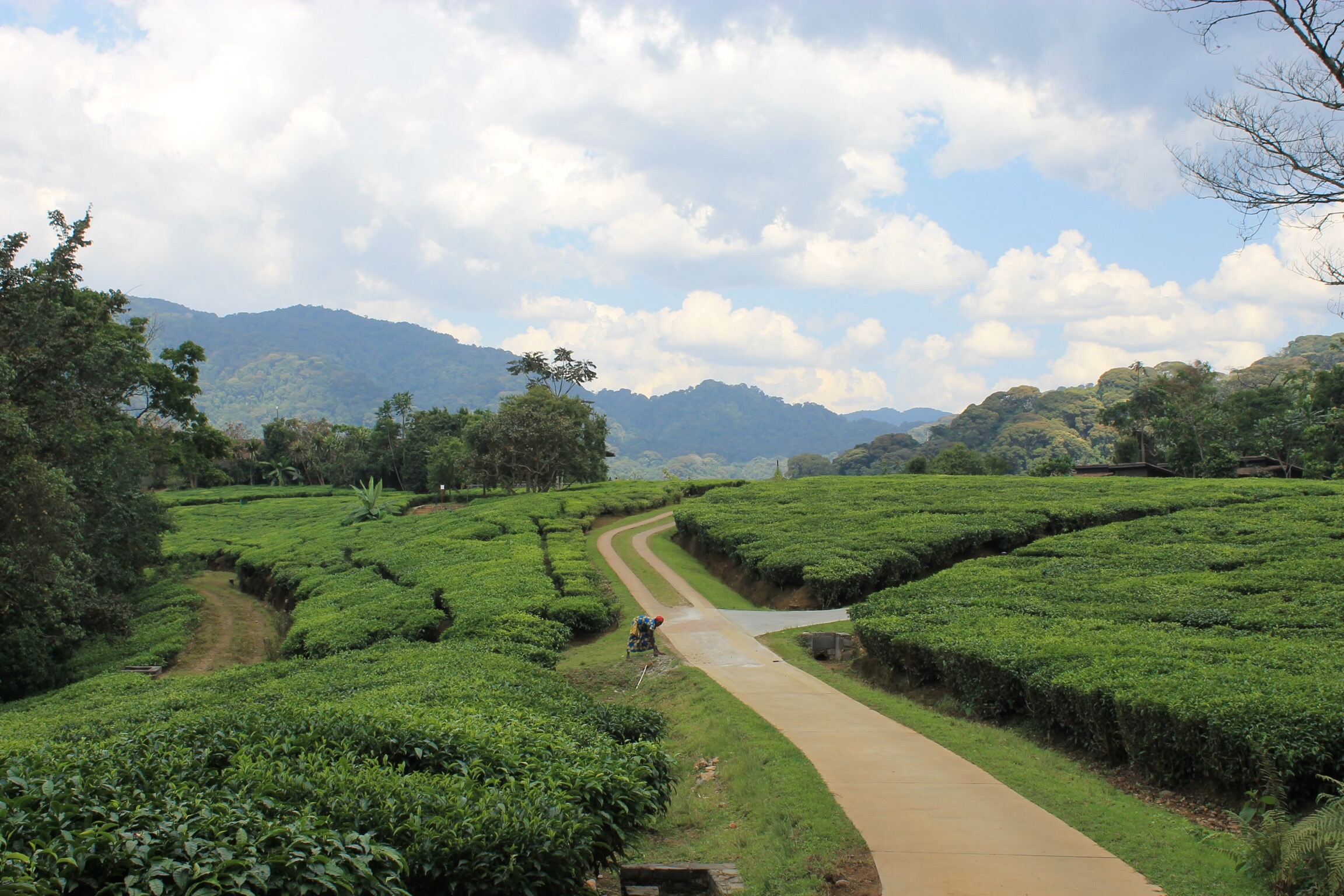 Rwanda tea is one of the famous teas in the world, this is one of the tea plantation fields in the western region of Rwanda. This photo was taken on the way to Kamiranzovu waterfalls in Nyungwe National Park. This is an image with the theme "Play" from: Rwanda